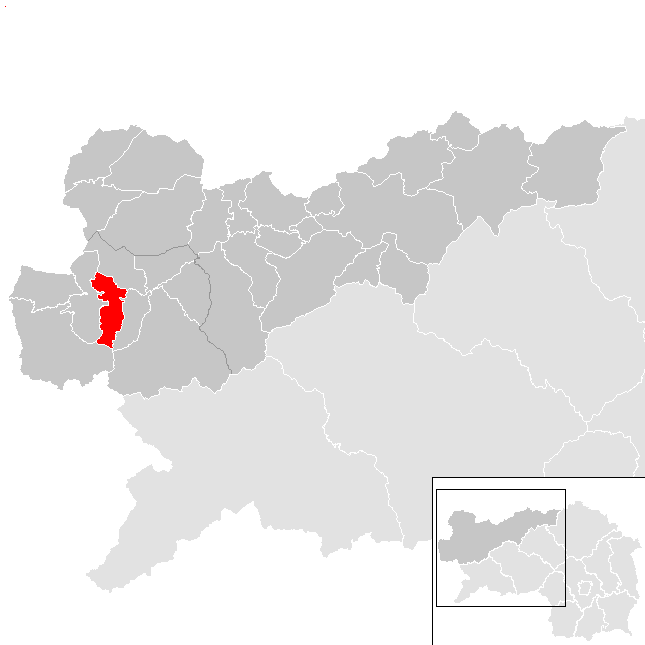 District Leoben